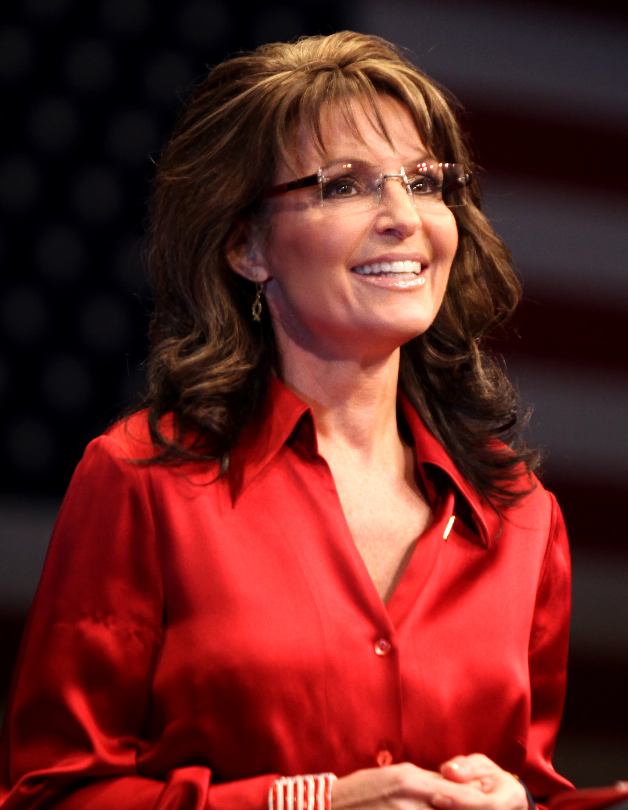 Sarah Palin speaking at CPAC in Washington D.C. on February 11, 2012.